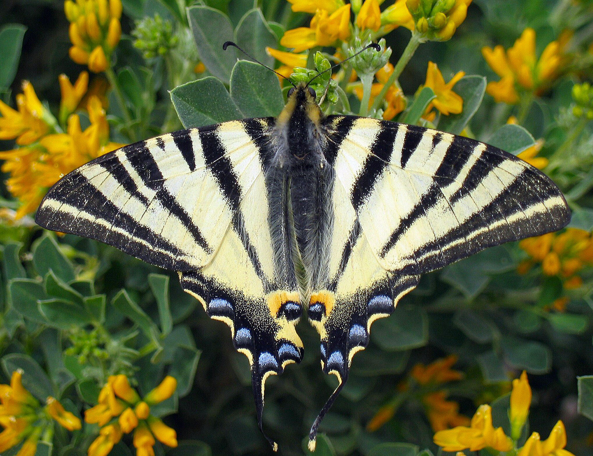 Scarce Swallowtail (Iphiclides podalirius), picture taken in Athens, Greece (March 27, 2005) by Tim Bekaert.